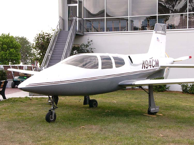 Cirrus VK-30 (N94CM) I took this photo at the Florida Air Museum at Sun n Fun 2006